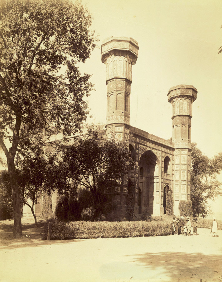 Photograph of the Chauburji Gateway at Lahore, Pakistan, taken by an unknown photographer in the 1880s, part of the Bellew Collection of Architectural Views. Lahore, the capital of Punjab province, is considered the cultural centre of Pakistan. Islam came here after the advent of Mahmud of Ghazni in 1021 AD, and it was subsequently ruled by a succession of dynasties of the Delhi Sultanate, followed by the Mughals, the Sikhs and the British. It reached its apogee under the Mughals, known as the Garden City and with enough architecture to rank it with other great Mughal centres like Delhi, Agra and Fatehpur Sikri. The Gateway of the Four Minarets or Chauburji was once the entrance to one of Lahore's many pleasure gardens. The garden, together with one of the gate's corner minarets (on the north-west) is now lost. An inscription on the gateway records that the garden was established here in 1646, in the reign of Shahjahan, by a lady described as Sahib-e-Zebinda Begum-e-Dauran, or 'the elegant lady of the age'. The lady referred to is probably Jahan Ara Begum, the eldest and favourite daughter of Shahjahan, who was known to have built gardens at Lahore. The gateway is beautifully decorated with rich mosaic-work.